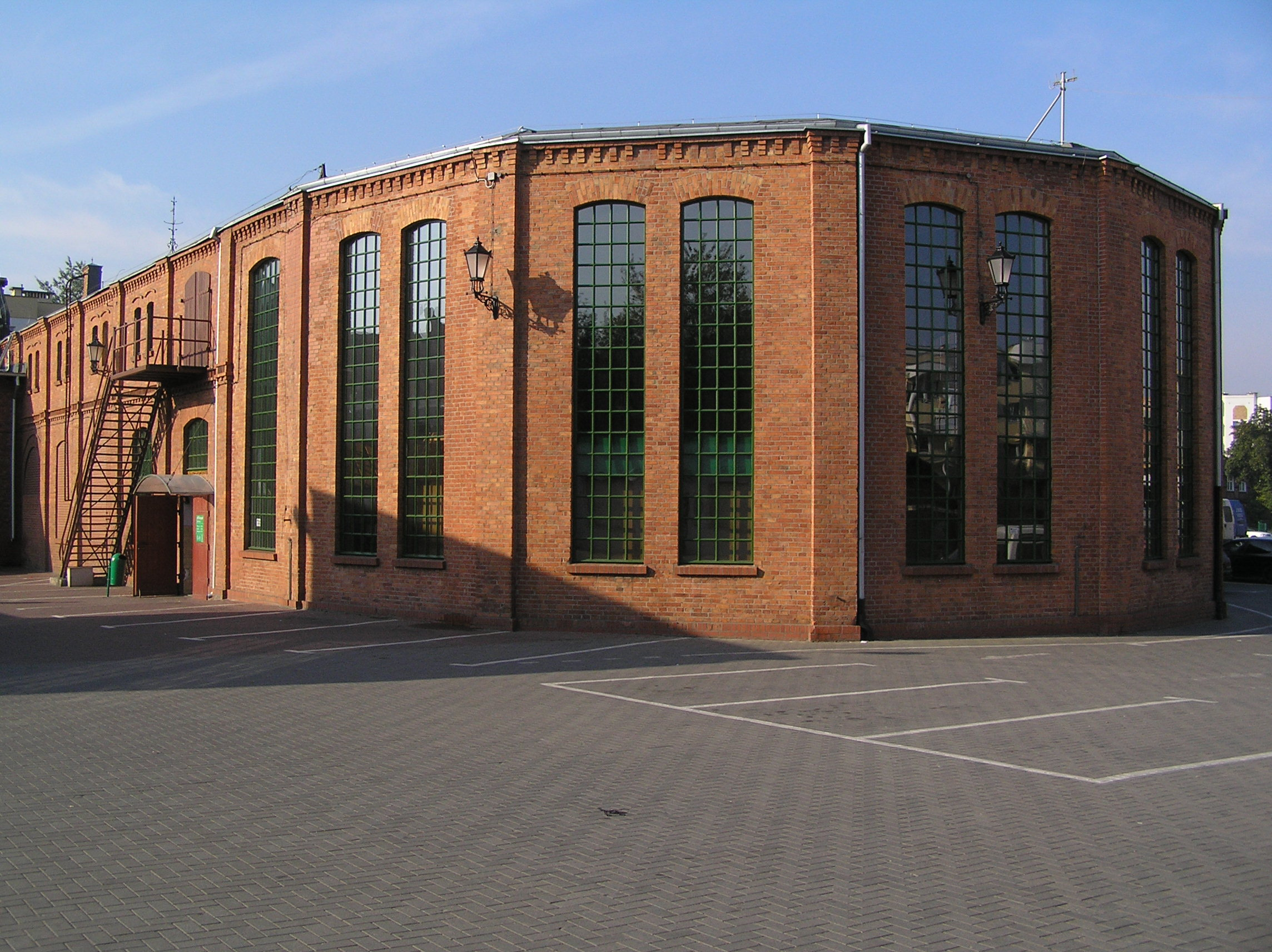 Toruń, Mokre district, former Born & Schütze factory